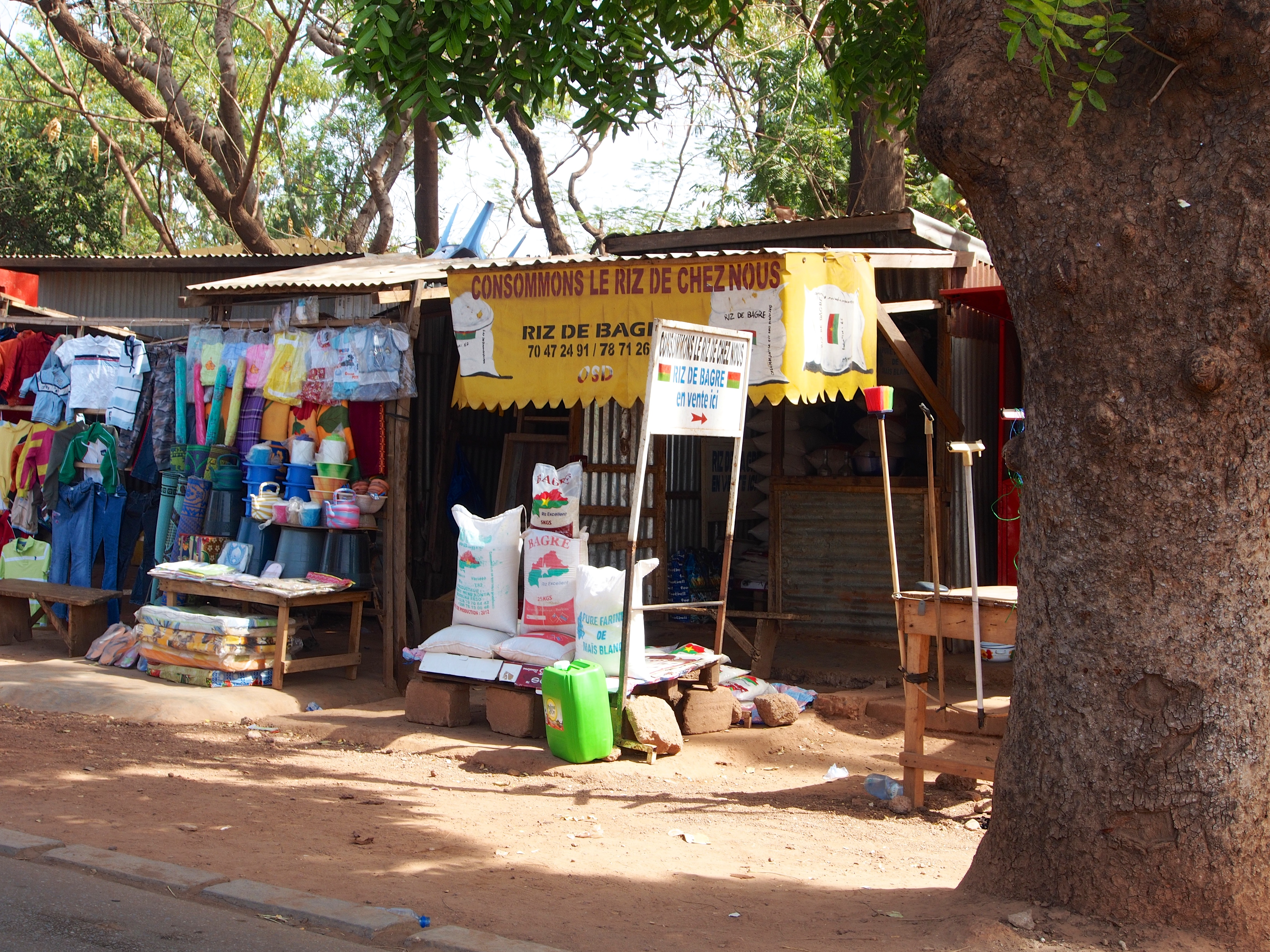 A shop downtown Ouagadougou selling rice from Bagré